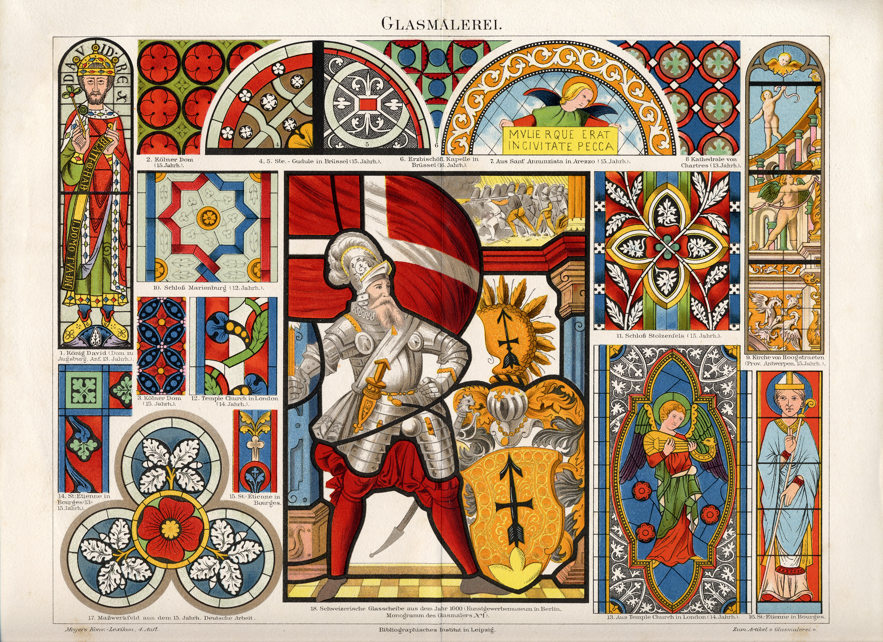 Depiction of different styles of glass painting from different ages